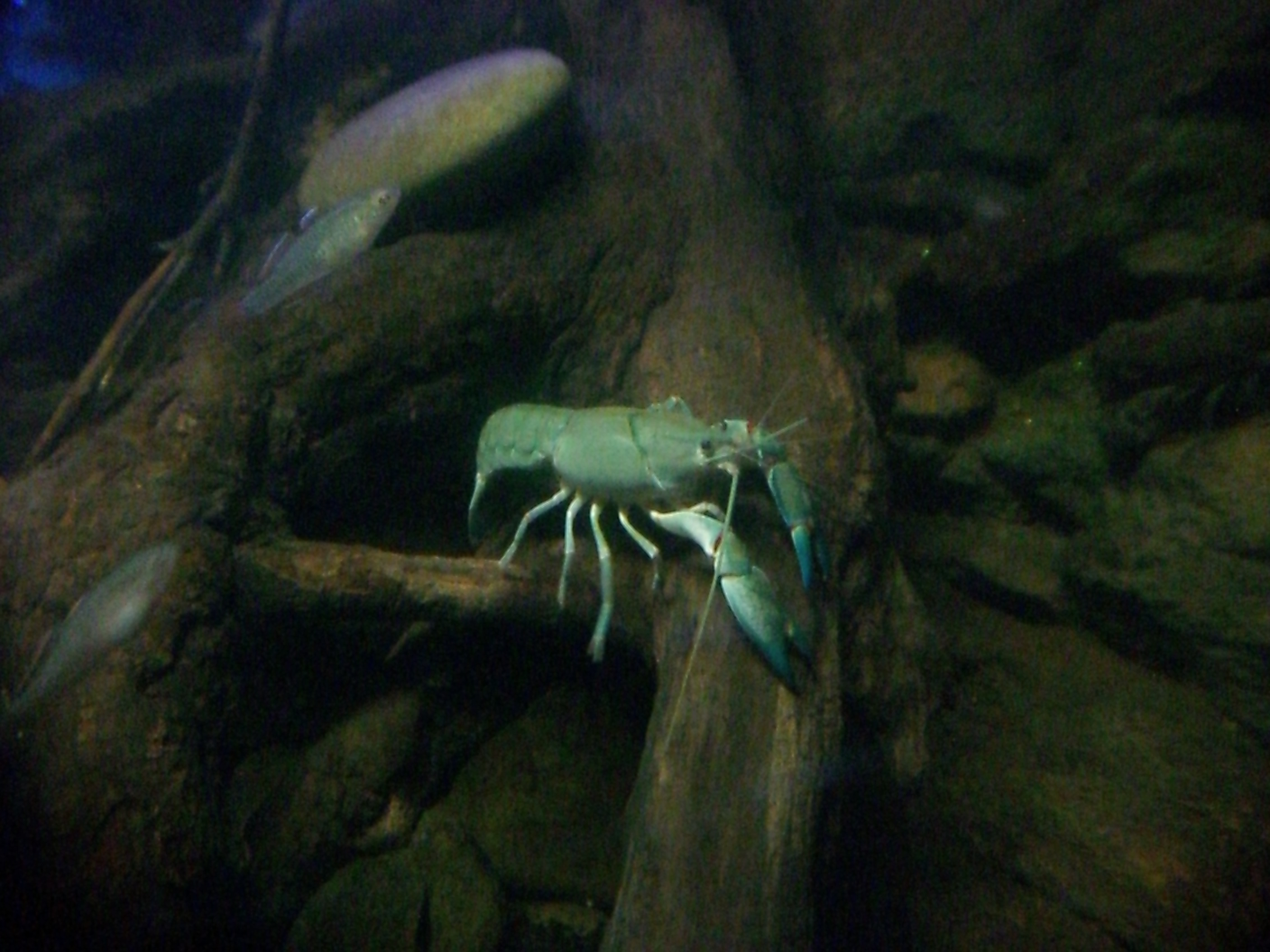 Blue Yabby (genus Cherax) Crayfish at the Sydney Aquarium